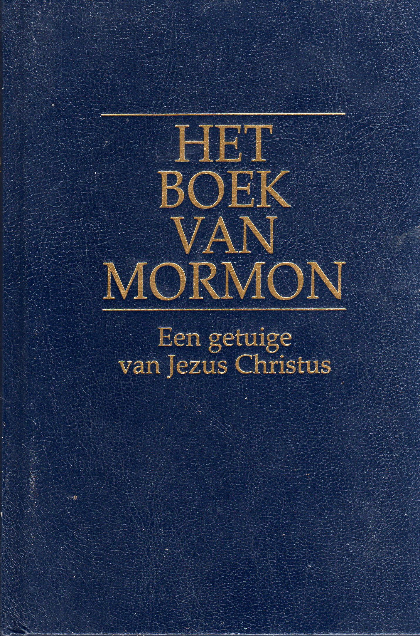 Cover of Dutch version of the Book of Mormon published by The Church of Jesus Christ of Latter-day Saints.